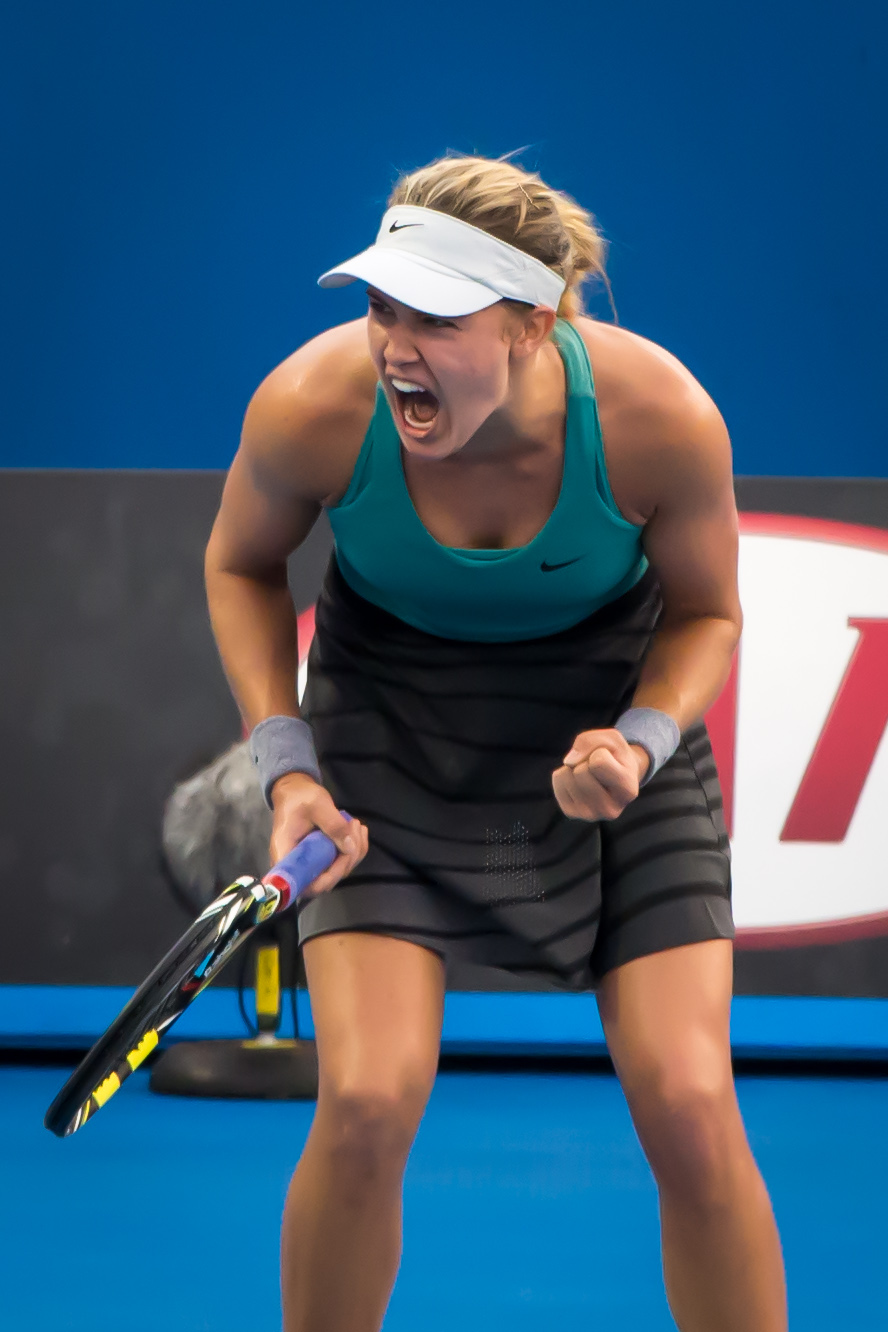 Eugenie Bouchard (CAN) [30] during her 2nd round straight-sets win to Virginie Razzano (FRA) at the 2014 Australian Open on Show Court 2.